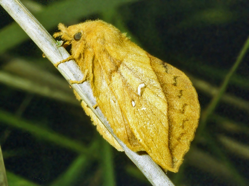 Euthrix potatoria. Female